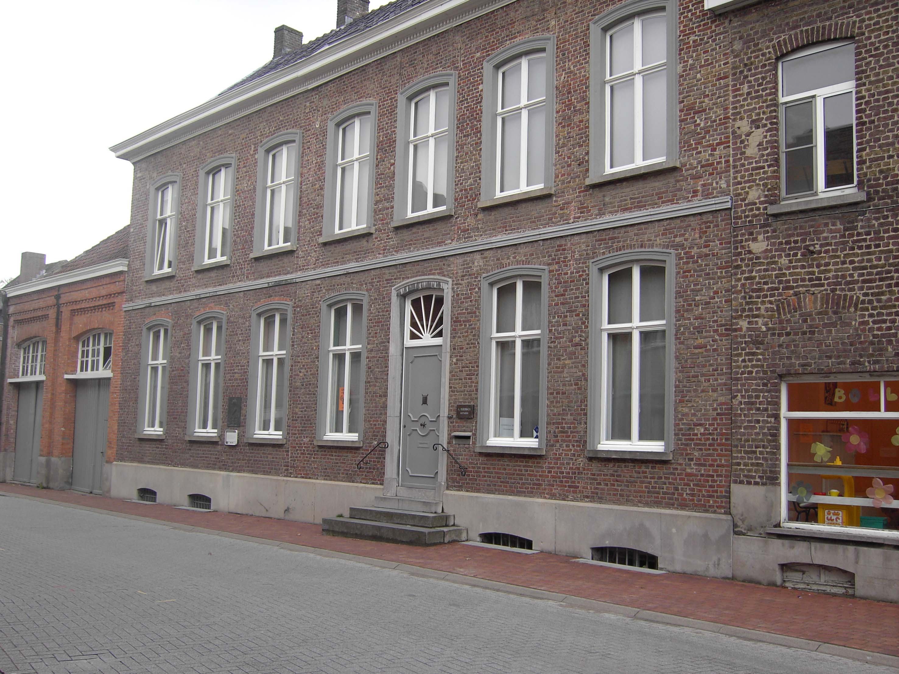 Nevele - The home (1865-1896) of writer Cyriel Buysse (1859-1932)